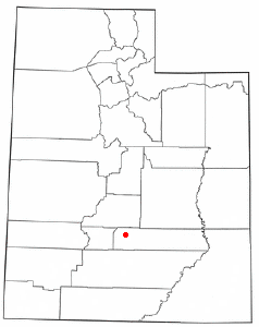 Location of Lyman, Utah